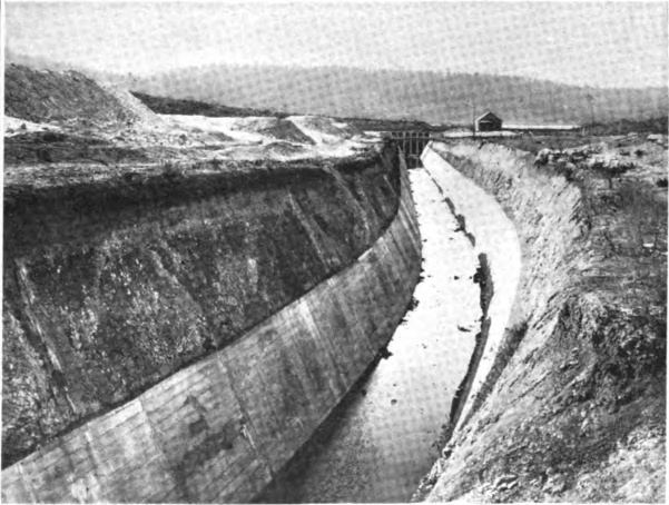 MAIN CANAL, KLAMATH PROJECT, U.S. RECLAMATION SERVICE.